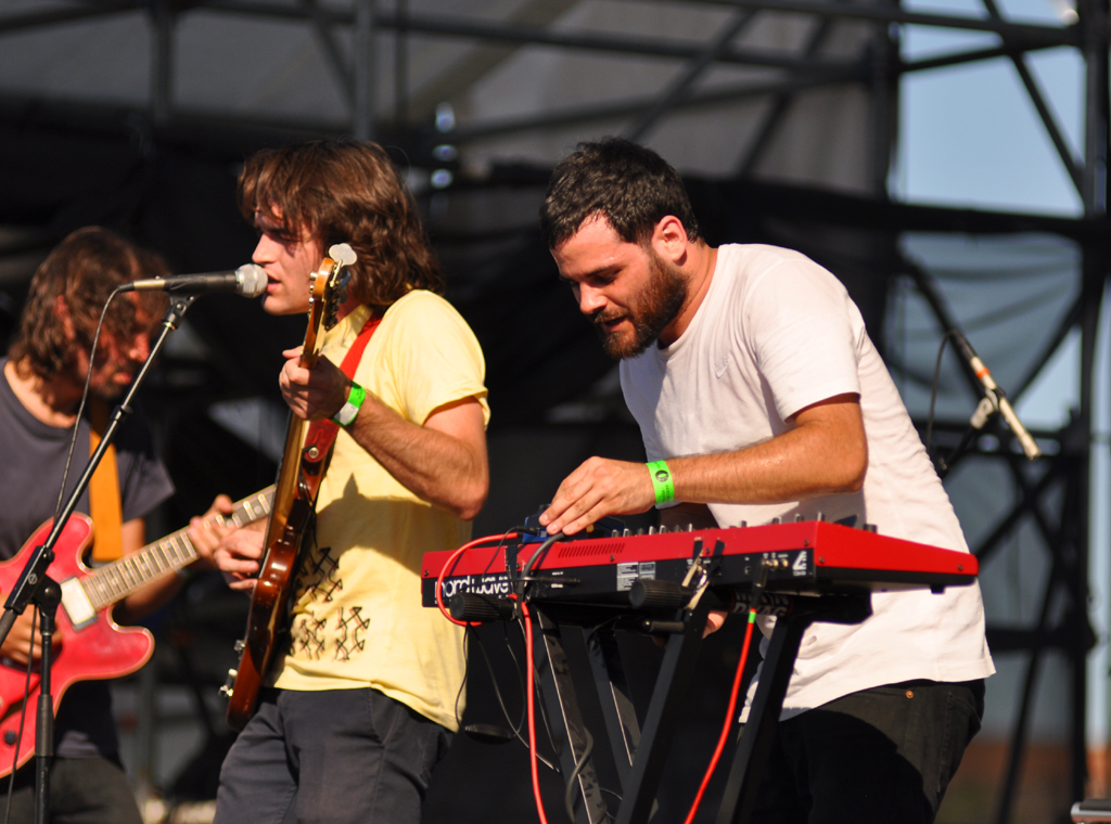 Delorean at the Williamsburg, Waterfront, Williamsburg, Brooklyn, August 29, 2010